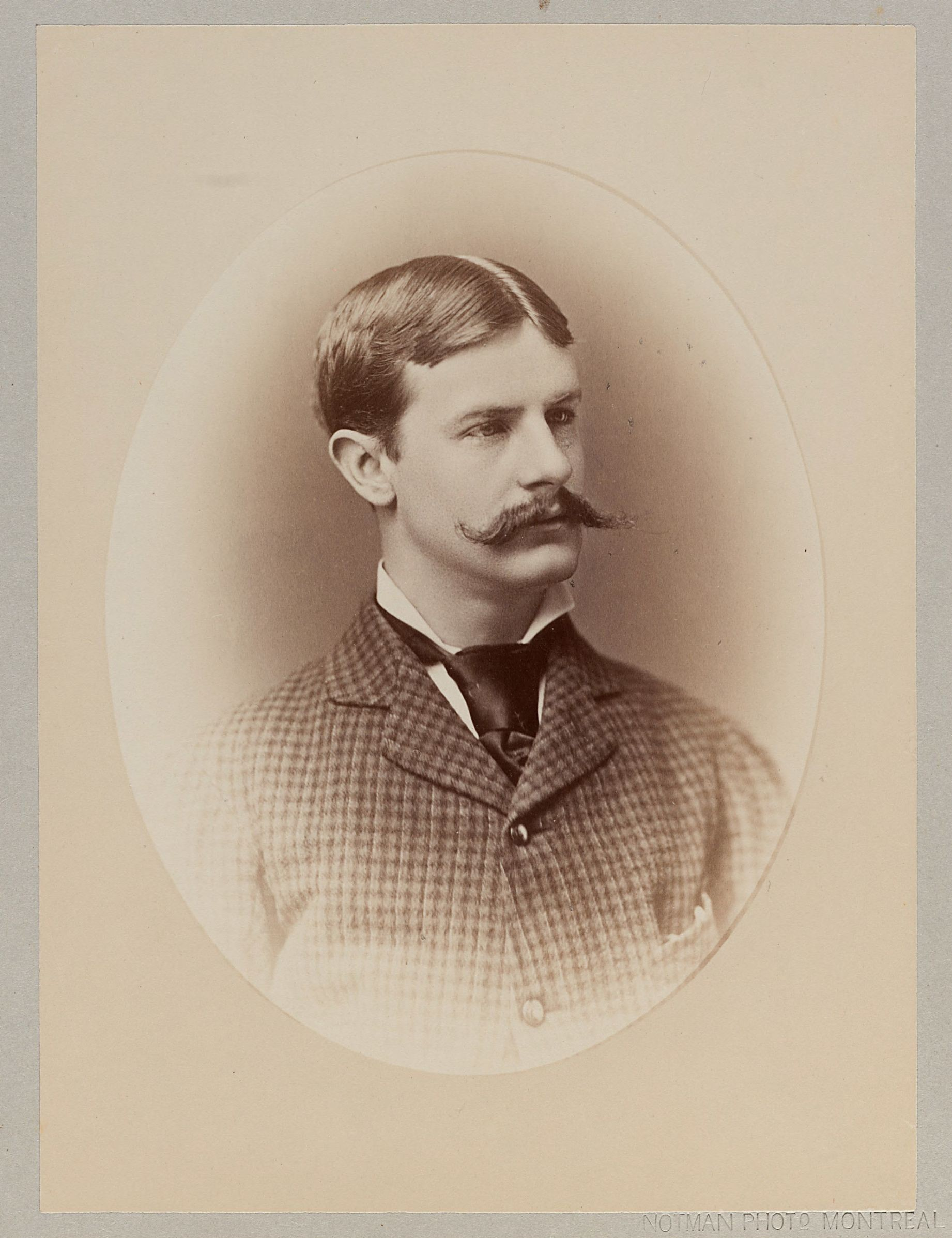 Photograph of architect Edmund March Wheelwright (1854-1912), circa 1876.